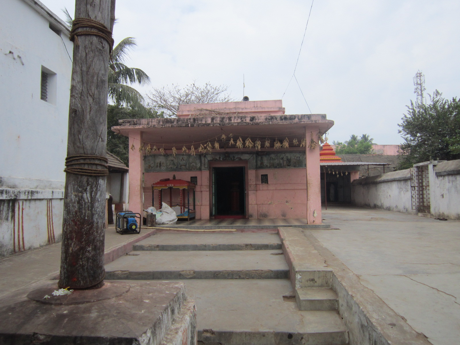 jagannadha swami temple